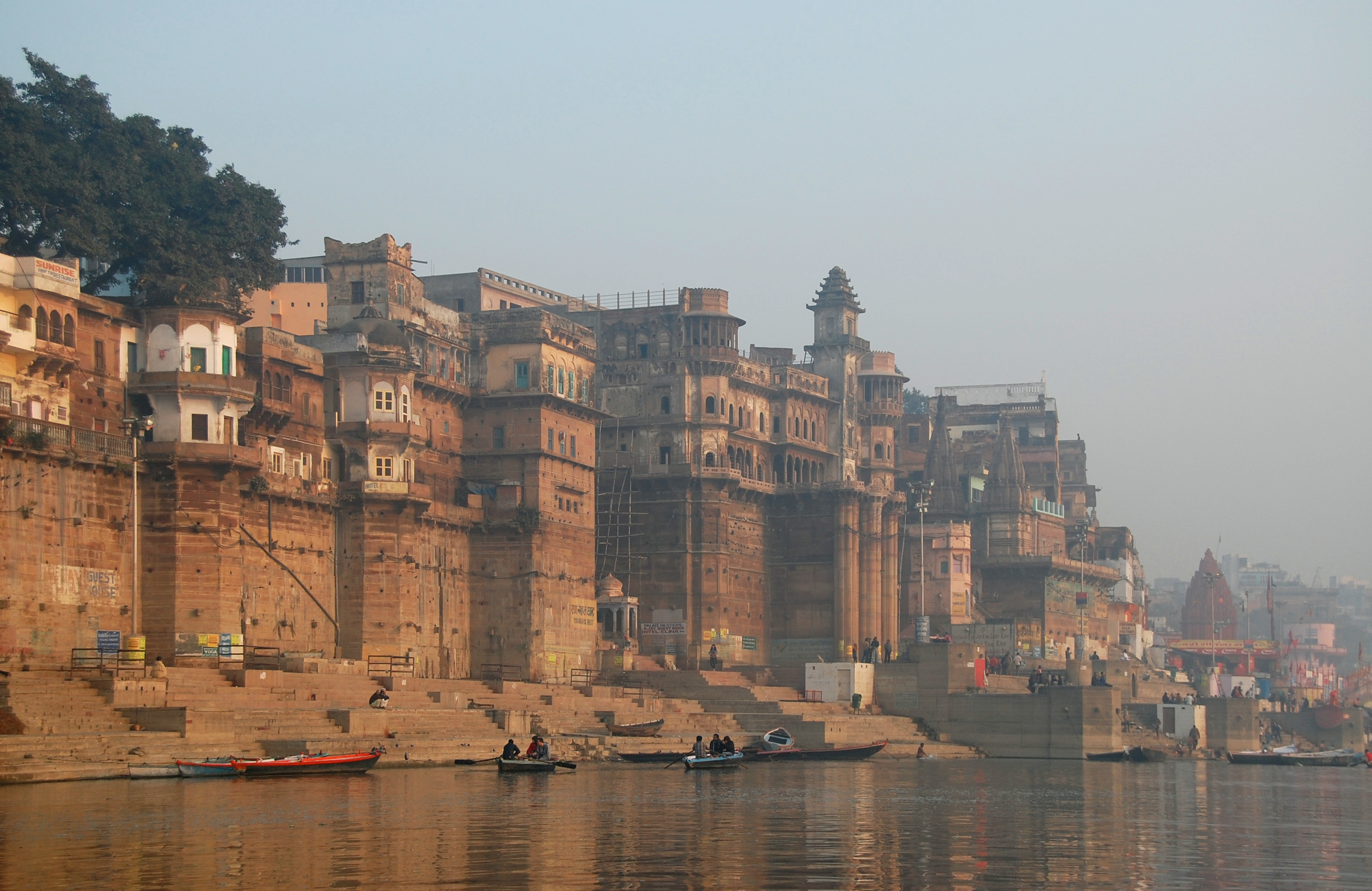 Varansi, India as seen from Ganga river.